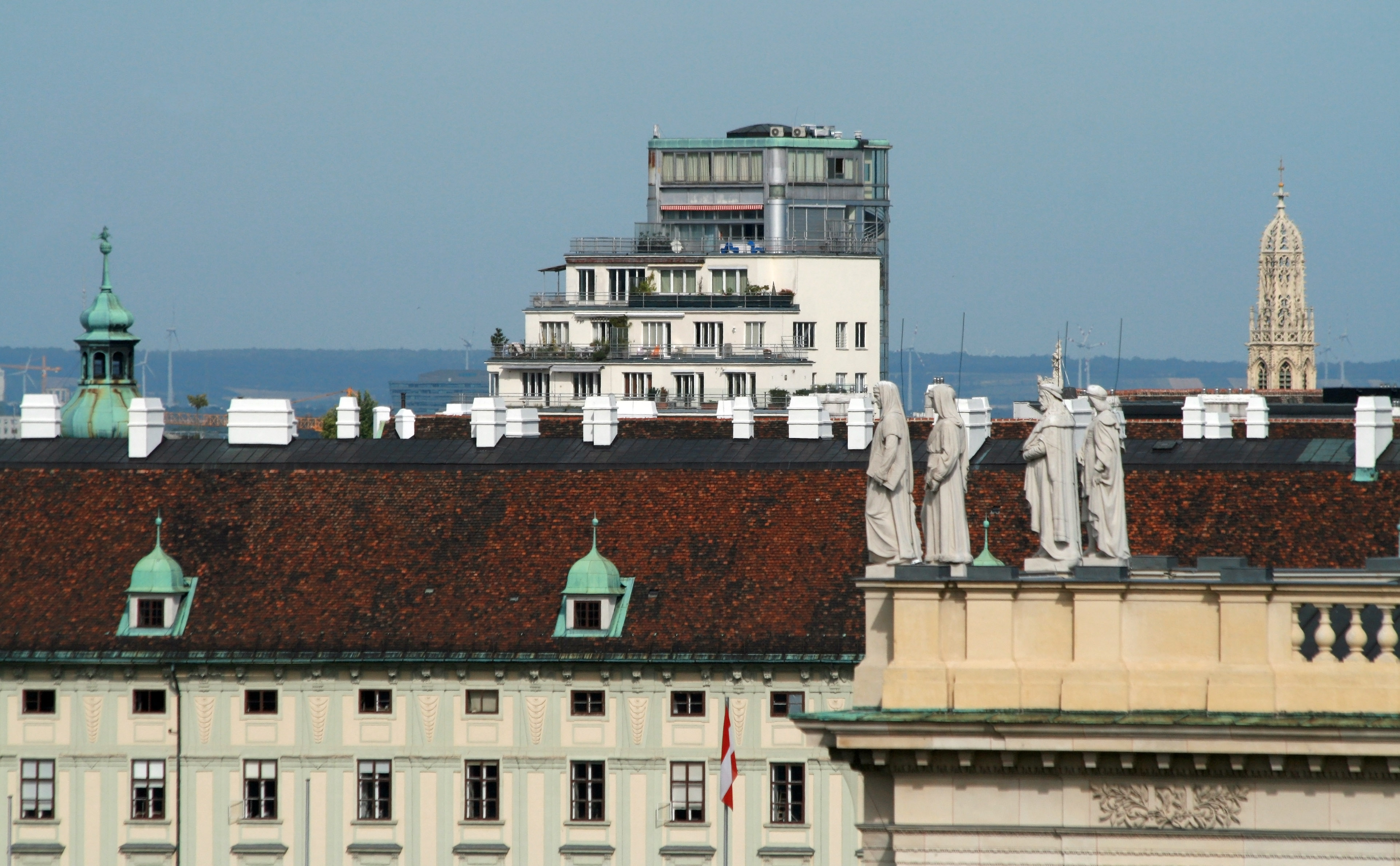 Vienna, Austria: Hochhaus Herrengasse with Leopold Wing of Hofburg Palace and statues on the roof of Kunsthistorisches Museum in the foreground, the tower of Maria am Gestade to the right.